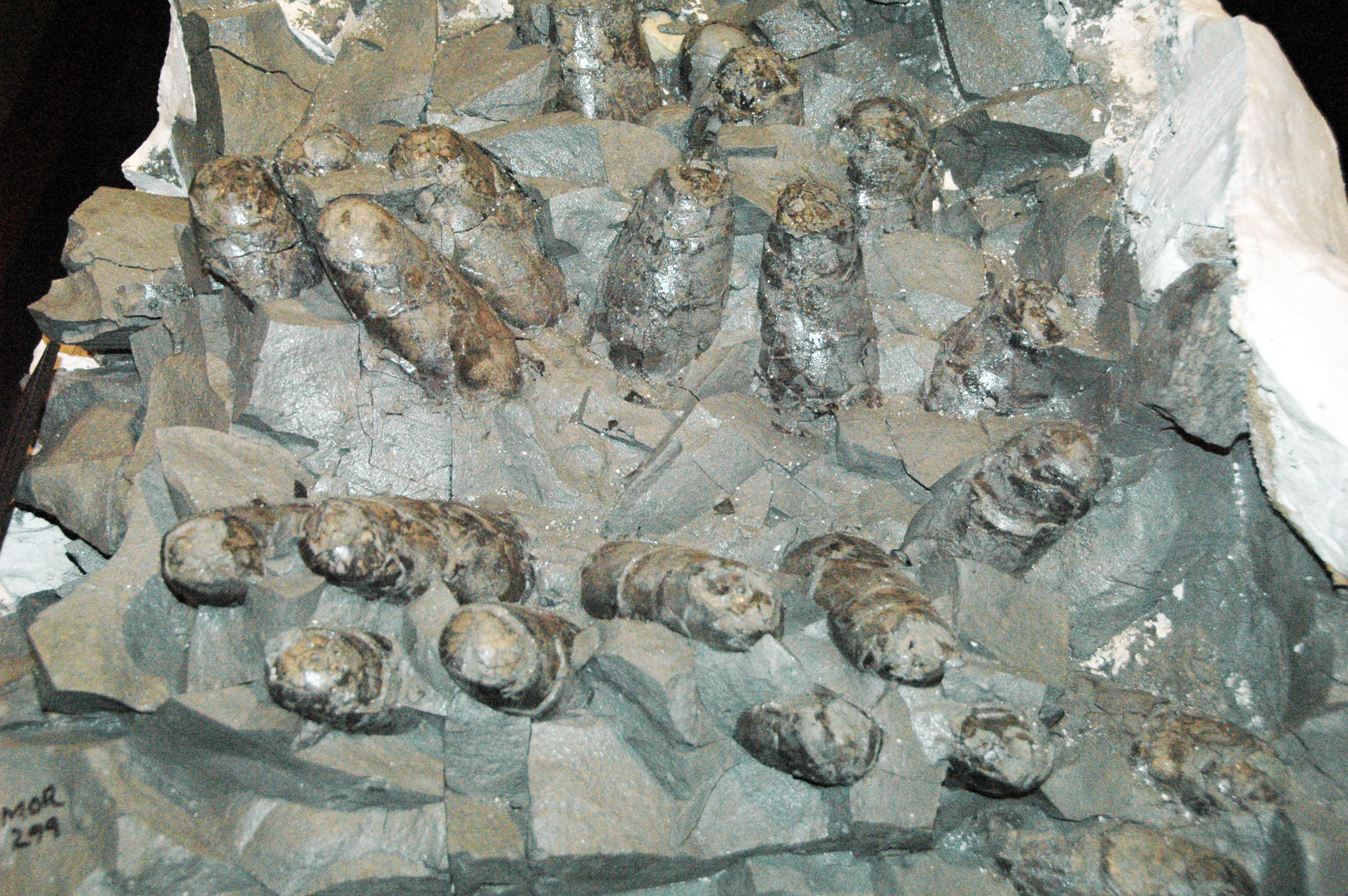 Prismatoolithus levis Zelenitsky & Hills, 1996 - fossil dinosaur eggs from the Cretaceous of Montana, USA. (MOR 299, Museum of the Rockies, Bozeman, Montana, USA) Biogenic products are objects produced by ancient organisms. Many paleontologists refer to these as trace fossils, but they really aren't. Examples of fossil biogenic products include eggs, amber (fossilized tree sap), coprolites (fossilized feces), and spider silk. Eggs were originally small, living cells. But hard eggshells are mineralized - the material was never alive, and thus are biogenic products. The most impressive fossil eggs are those of dinosaurs. Dinosaur nests having eggs in their original position are known from several localities. Sometimes, x-ray analysis or cat-scan analysis shows the presence of dinosaur embryos inside intact eggs. The embryos would be body fossils, but the surrounding eggshell material is a biogenic product. Seen here is a dinosaur nest with the eggs arranged obliquely upright, radiating outward from the center of the nest. The host rock is siliciclastic mudstone. The scientific name ("oospecies") for the eggs themselves is Prismatoolithus levis. They were produced by Troodon formosus, a theropod dinosaur. Classification: Animalia, Chordata, Vertebrata, Reptilia, Dinosauria, Saurischia, Theropoda, Troodontidae Stratigraphy: Two Medicine Formation, Upper Cretaceous Locality: Egg Mountain, Willow Creek Anticline, Teton County, western Montana, USA